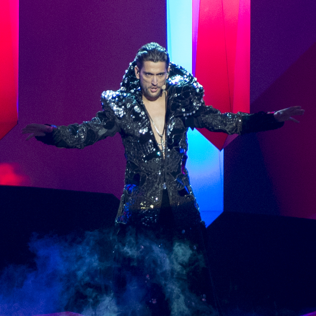 Cezar representing Romania with the song "It's My Life" during the second dress rehearsal of the second semi final of the Eurovision Song Contest 2013 in Malmö. (Help translate this text)